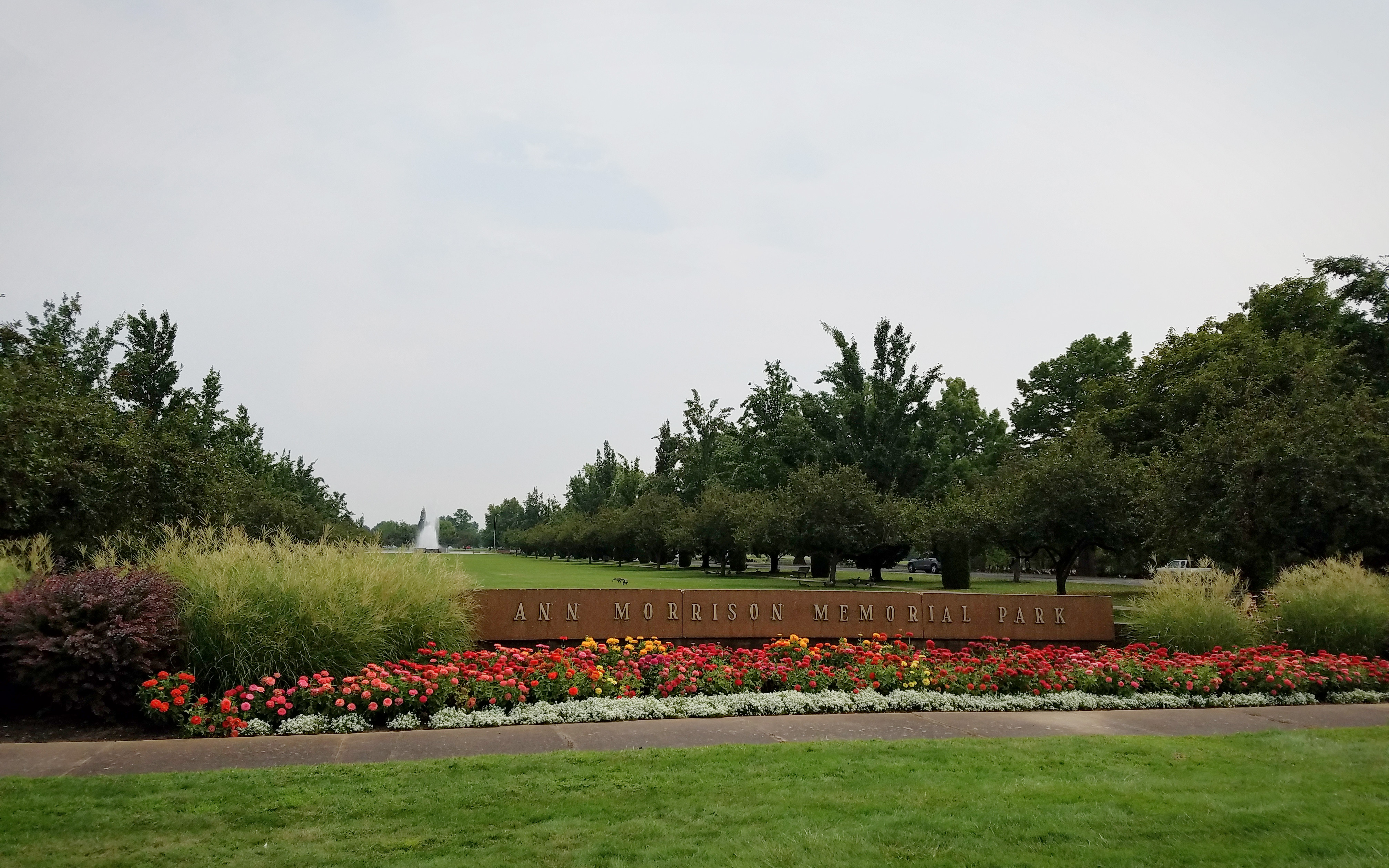 Ann Morrison Memorial Park was gifted by Harry Morrison to the city of Boise, Idaho, in 1959. The park includes picnic facilities, bocce courts, a disc golf course, horseshoe pits, an outdoor gym, a volleyball court, a playground, tennis courts, and fields for softball, soccer, cricket, and football. The park is sited on 153 acres adjacent to the Boise River.